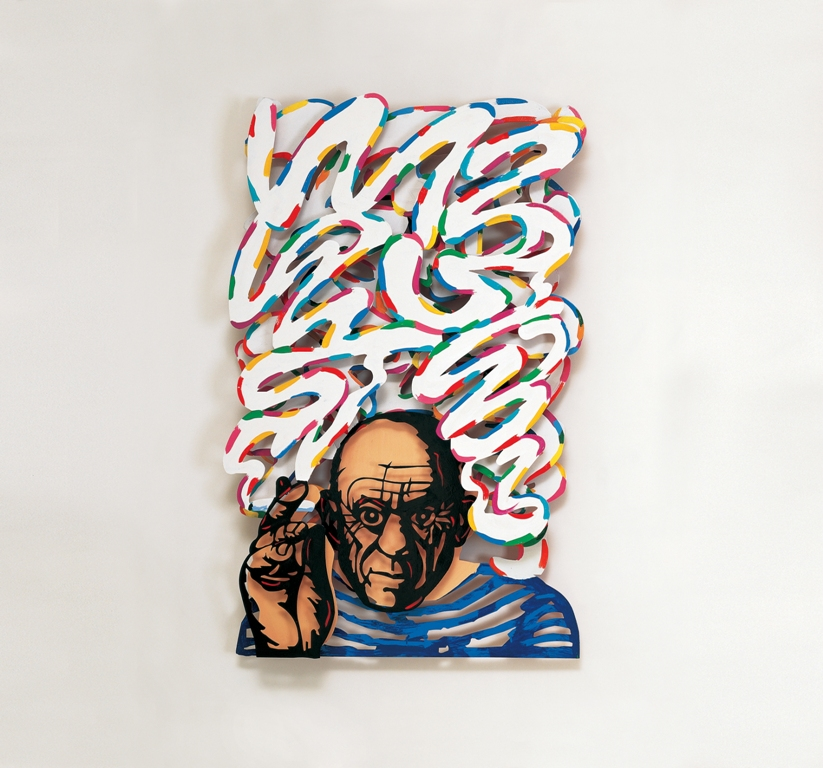 A work by Israeli artist David Gerstein